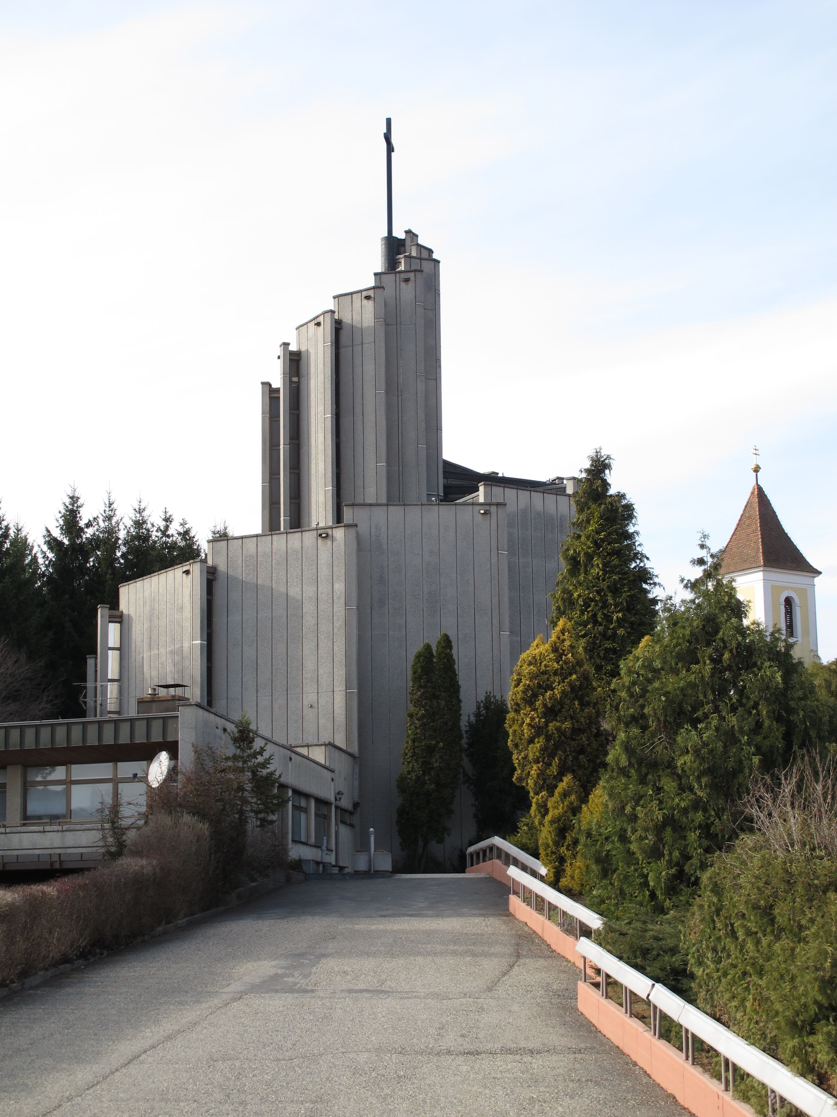 Neue Pfarrkirche Stegersbach